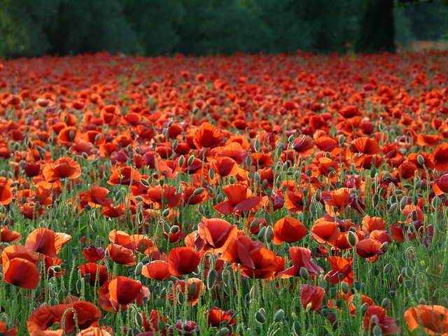 A profusion of poppies A blaze of scarlet has replaced the acid yellow of the earlier-blooming oilseed rape.